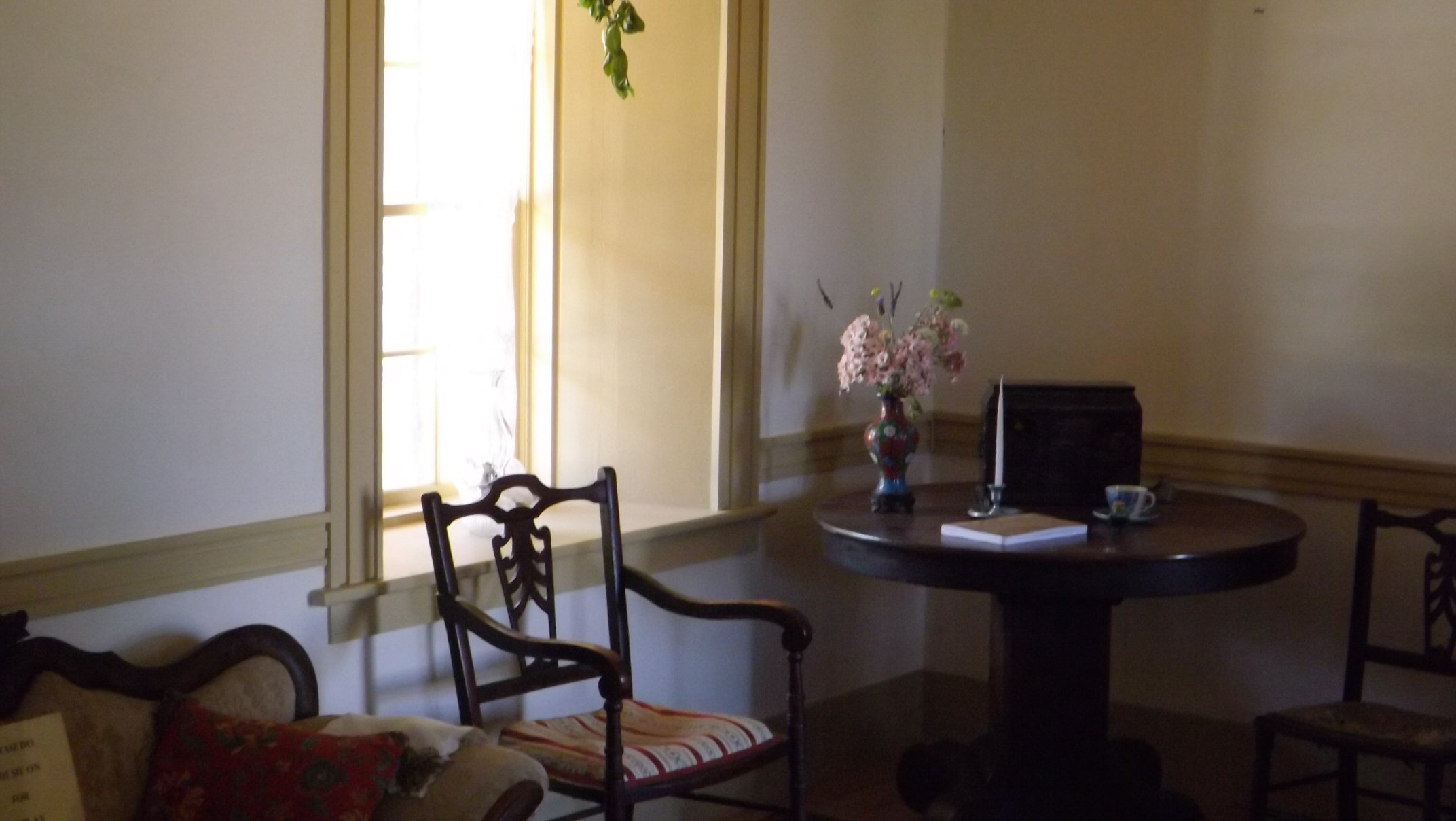 The newly restored Dana Adobe in Nipomo during their Heritage fiesta.